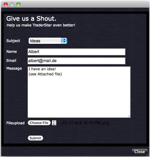 TraderStar's screenshots - Feedback